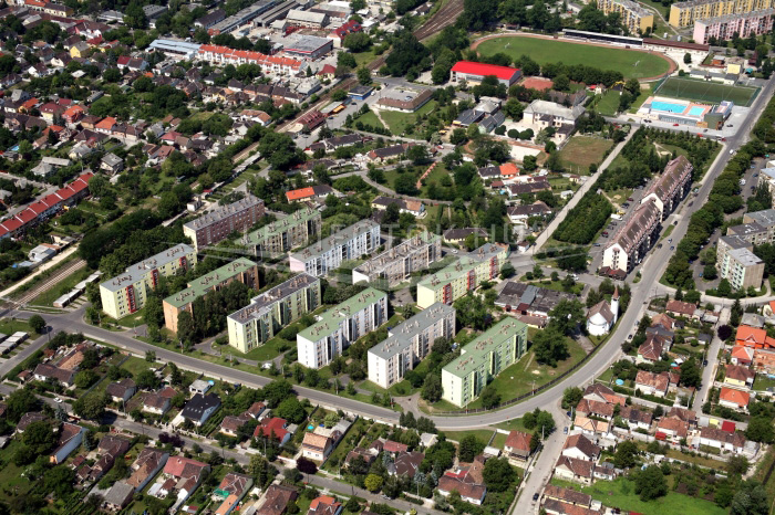 Around the stadium from east side